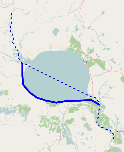 Belozerskiy canal